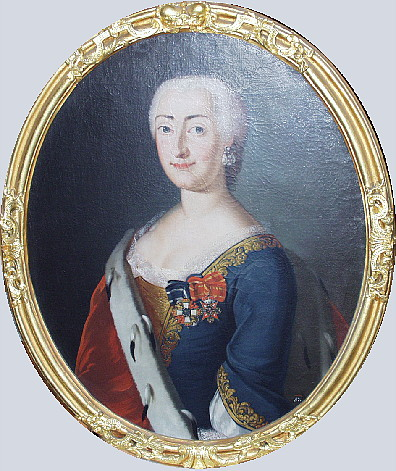 Eleonore Wilhelmine of Anhalt-Köthen (1696-1726), duchess of Saxe-Weimar as wife of duke Ernest Augustus I